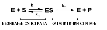 Monosubstituted mechanism of enzymatically catalyzed reaction